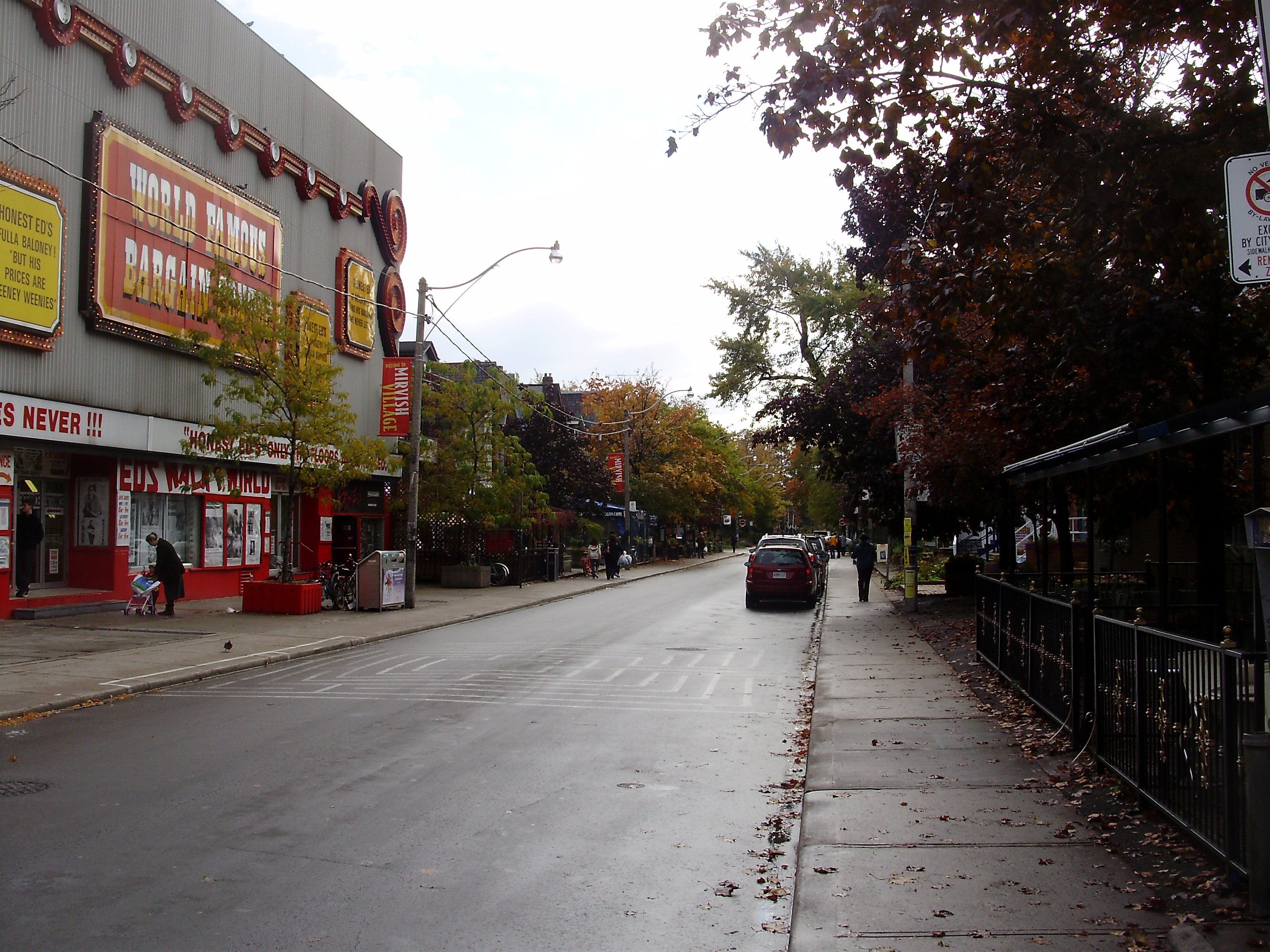 The Victorian homes along Markham Street, south of Bloor, in the Mirvish Village business improvement area of Toronto, Ontario, Canada.